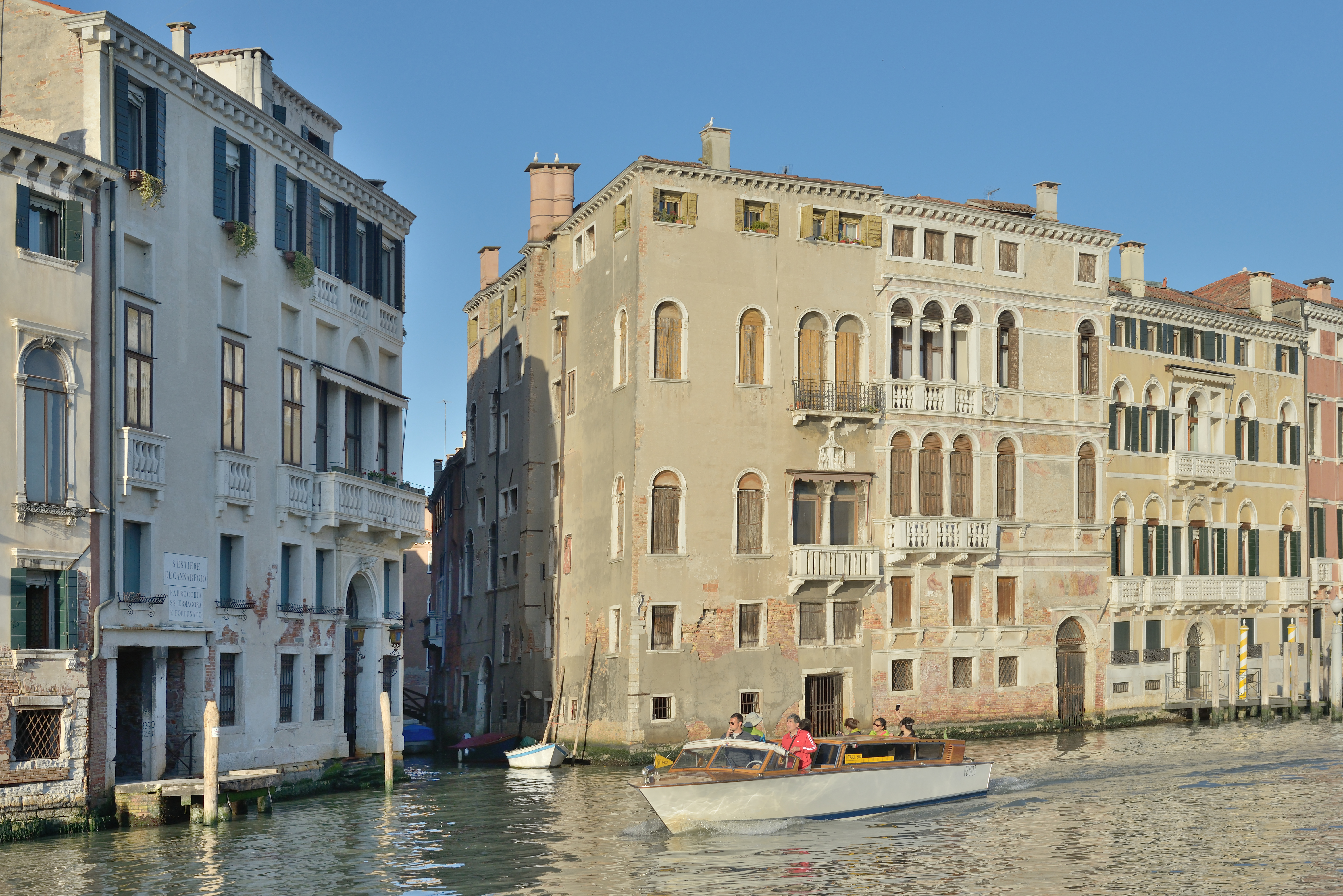 The Palazzo Molin Querini, the Rio de la Madalena canal and Palazzetto Barbarigo from the Canal Grande in Venice.